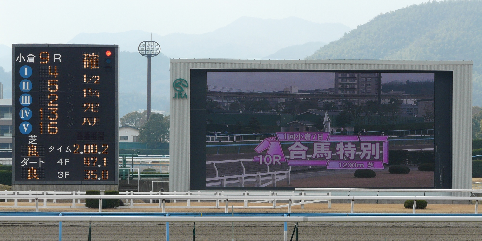 Kokura_Racecourse01